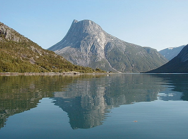 View of the southern part of the Skjomen Fjord. Lappviktind in the background. This image is photographed by the uploader. The image was photographed by Knut Sandvik, the uploader.